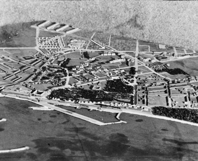 Royal Air Force- 2nd Tactical Air Force, 1943-1945. The model built for briefing the crews of No. 140 Wing, No. 2 Group, involved in the attack on the Gestapo Headquarters in Jutland, Denmark, housed in halls of residence at Aarhus University (arrowed), on 31 October 1944.